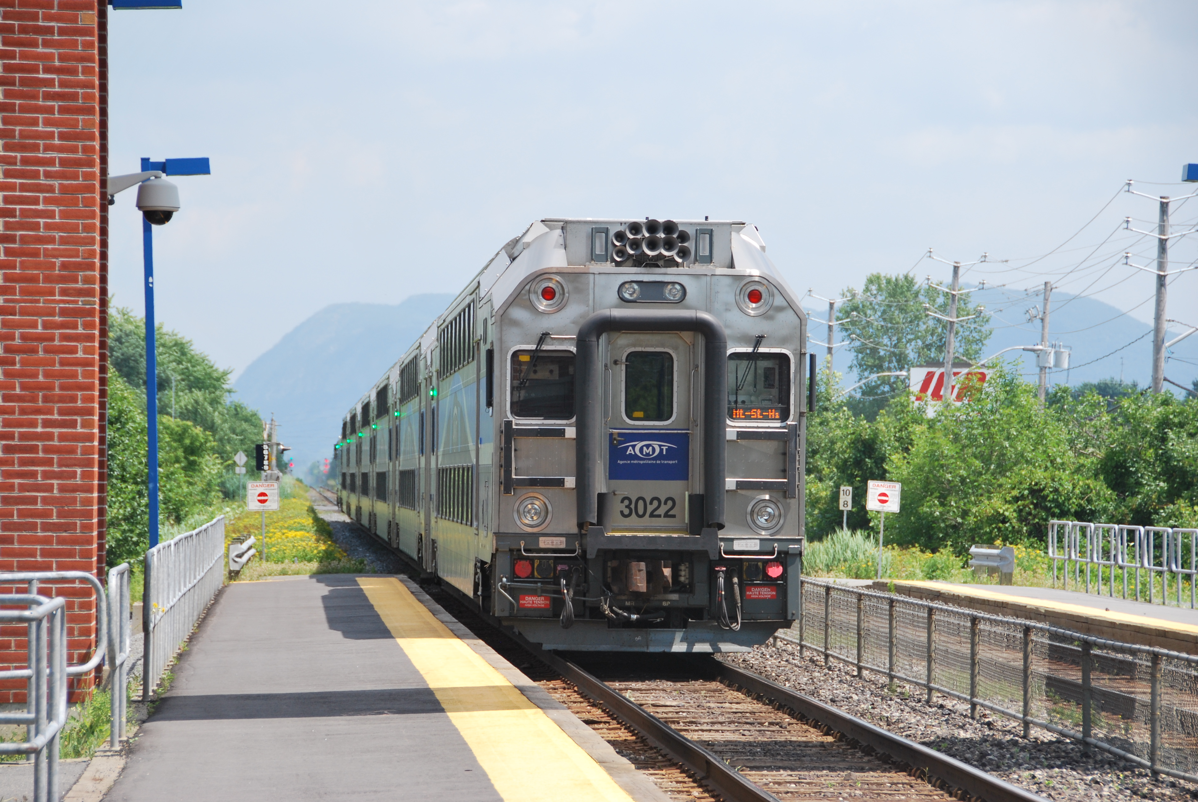 An AMT train arriving at Saint-Basile-le-Grand Station on the Mont-Saint-Hilaire Line.